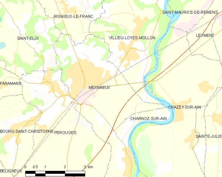 Map of French commune: Meximieux Map commune FR insee code 01244.png